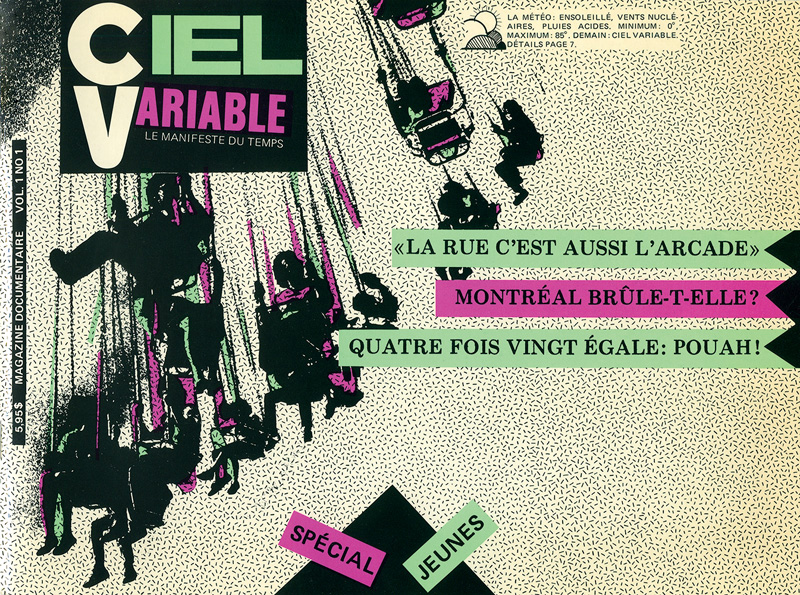 Cover, "Ciel variable 01 - Spécial Jeunes", Ciel variable Magazine, 1986.